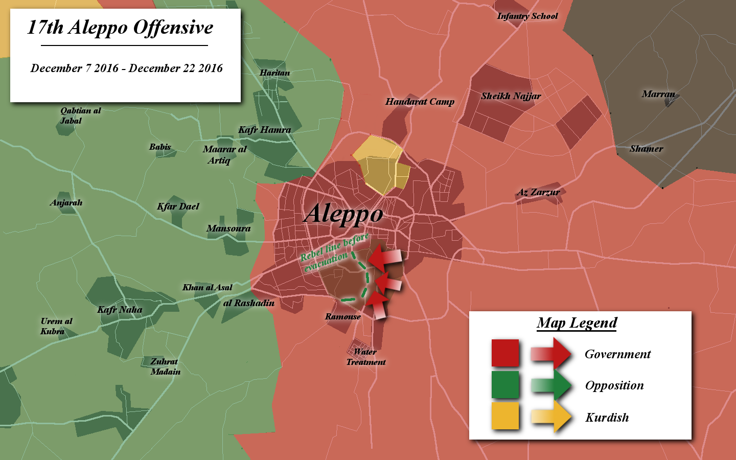 A simplified version of the final phase of the 17th Aleppo Offensive and evacuation. Created in gimp 2.8. Influenced by many maps from creators: MrPenguin20, PetoLucem, Edmaps Syria, and so on.